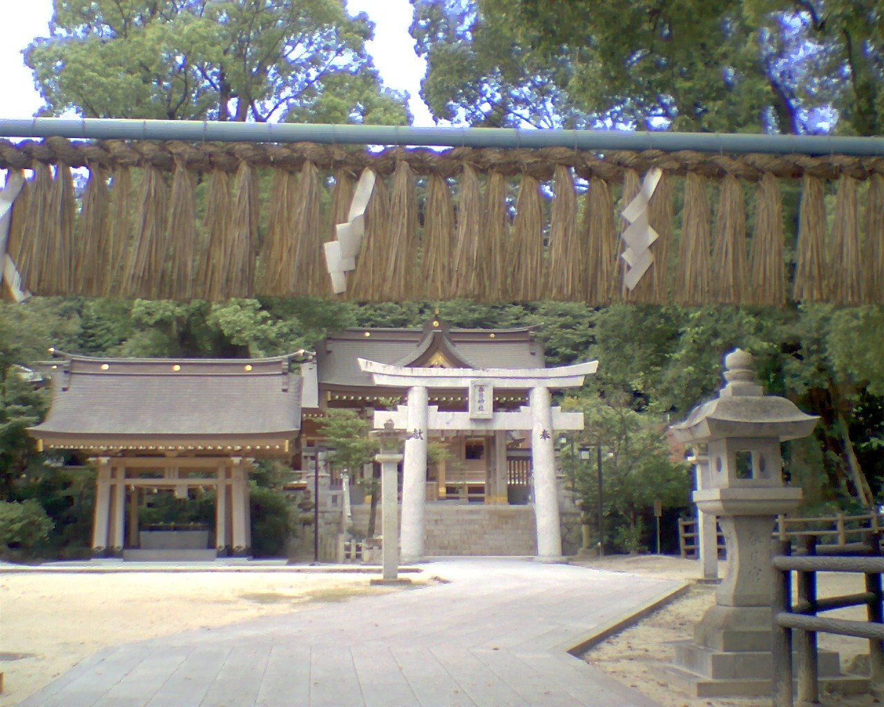 This photograph is a Torii and the pilgrimage route on a shrine(Jinja) named 'Kasuga shrine' (or 'Kasuga jinja' , ja : '春日神社'), in the Kasuga city, Fukuoka prefecture, Japan.Tradition says that this shrine originated with onshrine in Amenokoyaneno-mikoto by the Prince Nakanooe (Emperor Tenchi) long ago, and its famous for the new year's event 'Kasuga no Mukooshi'(ja : '春日の婿押し').